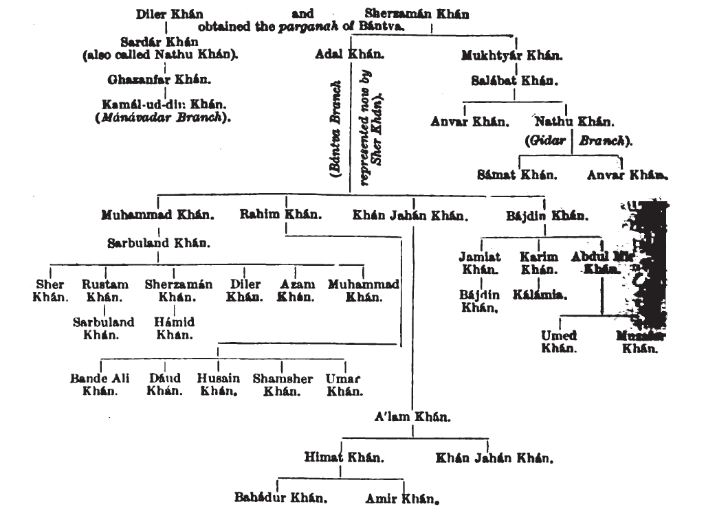 Bantva Manavadar State Ruler Babi Family Tree (as of1884)